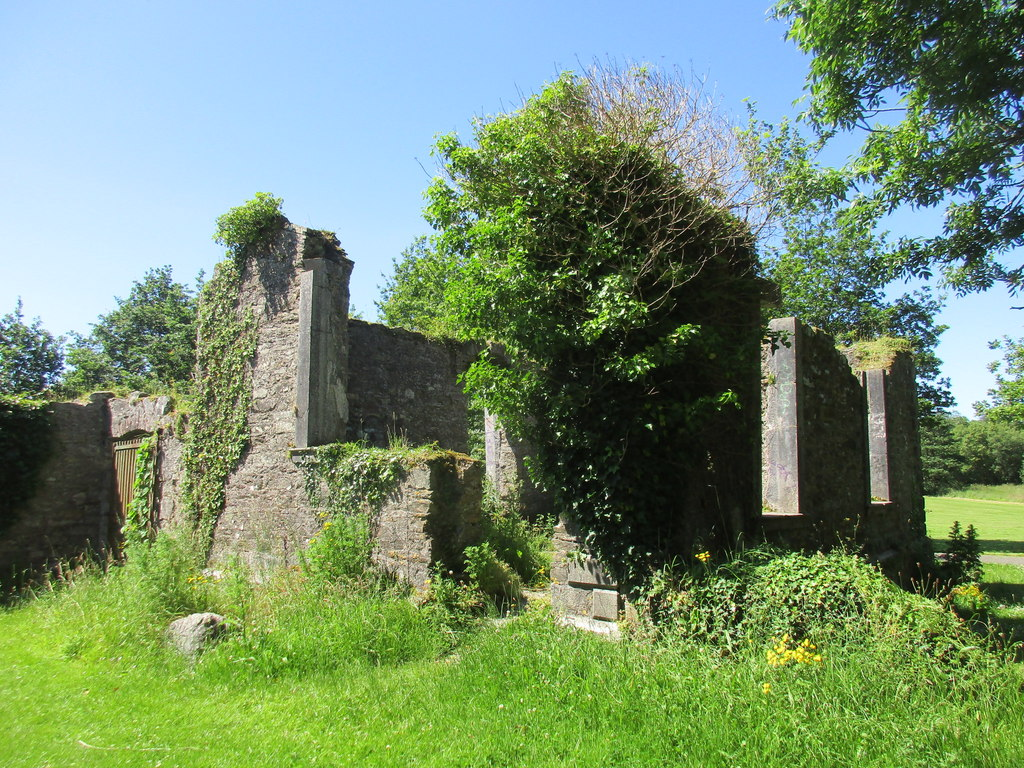 Ruins of former chapel attached to the Bishop's Palace